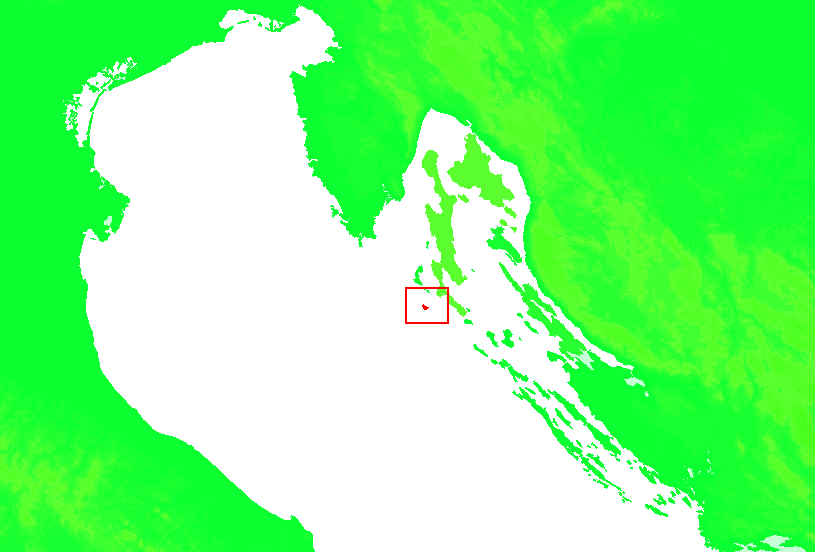 Island of Croatia Croatia - Susak.PNG